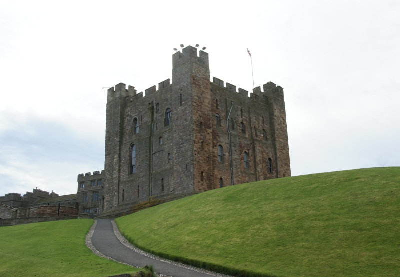 Bamburgh Castle, Northumberland, England. Tower.